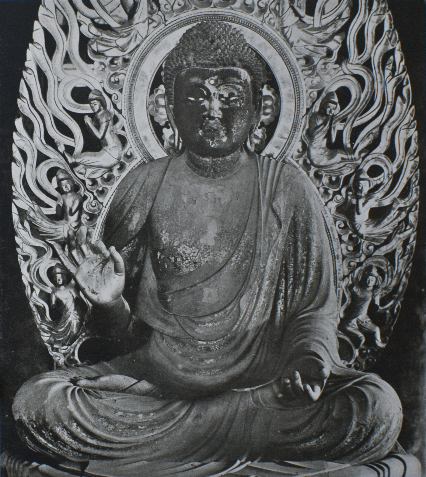 Hokuendo, Kofukuji, Nara, Japan